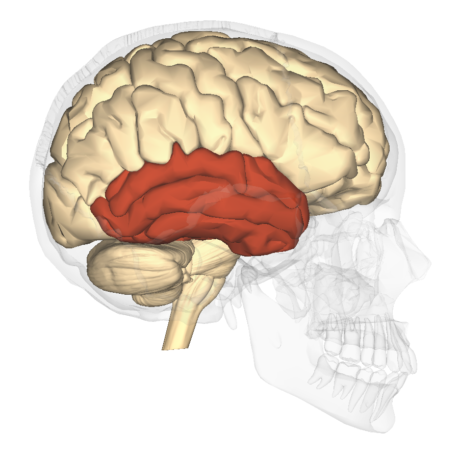 Temporal lobe (shown in red).